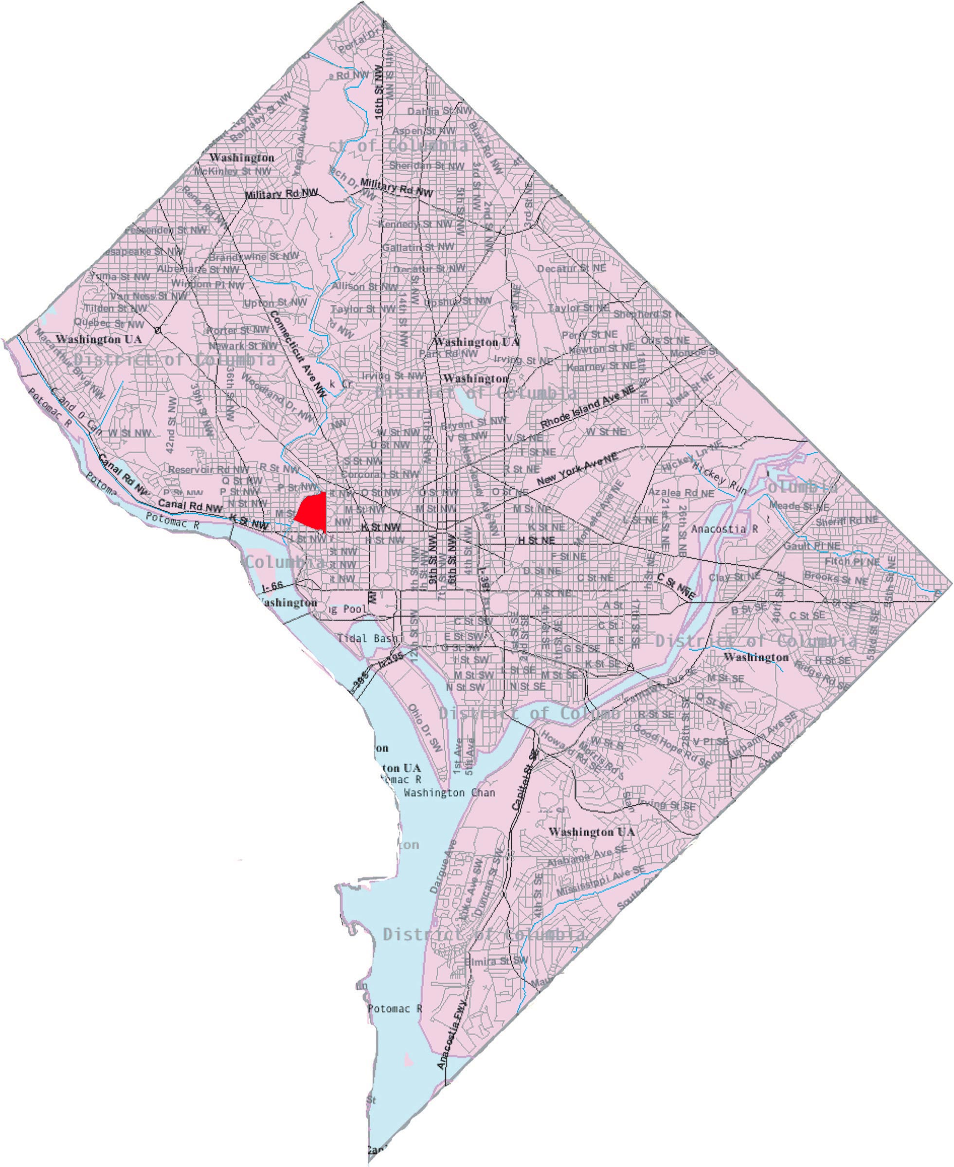 Self-made by applying personal edits to public domain (government) document.